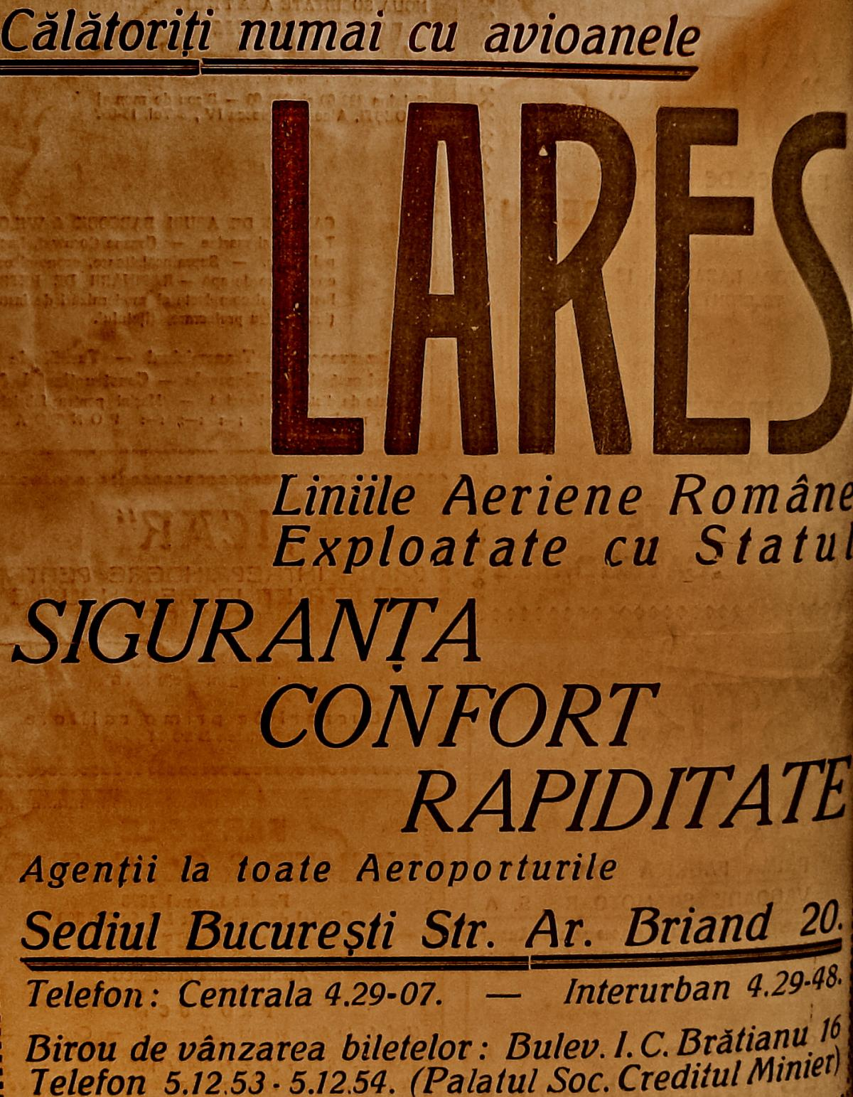 Advertisment Lares